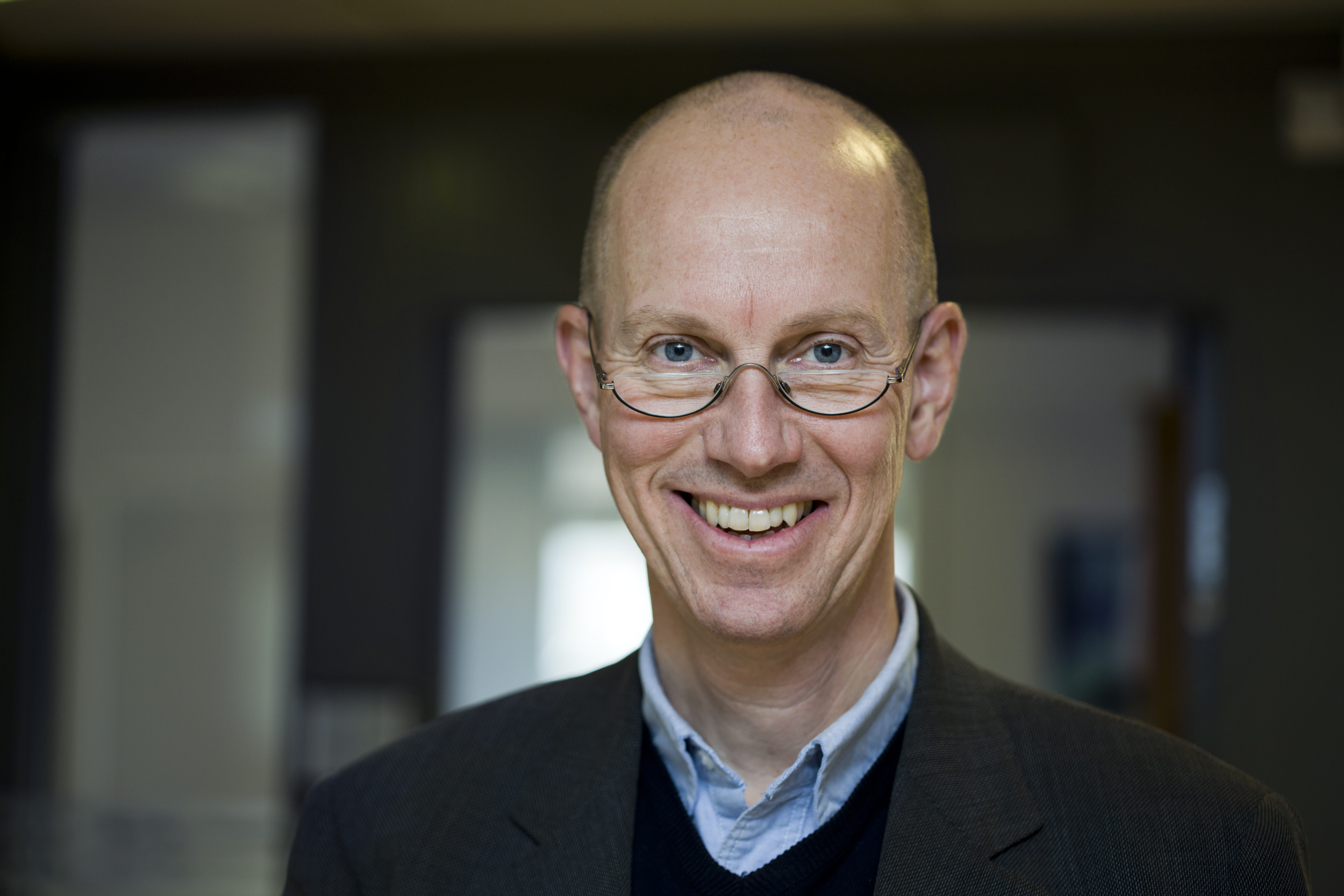 Jan Fredrik Andresen, director general of the Norwegian Board of Health Supervision from November 2012